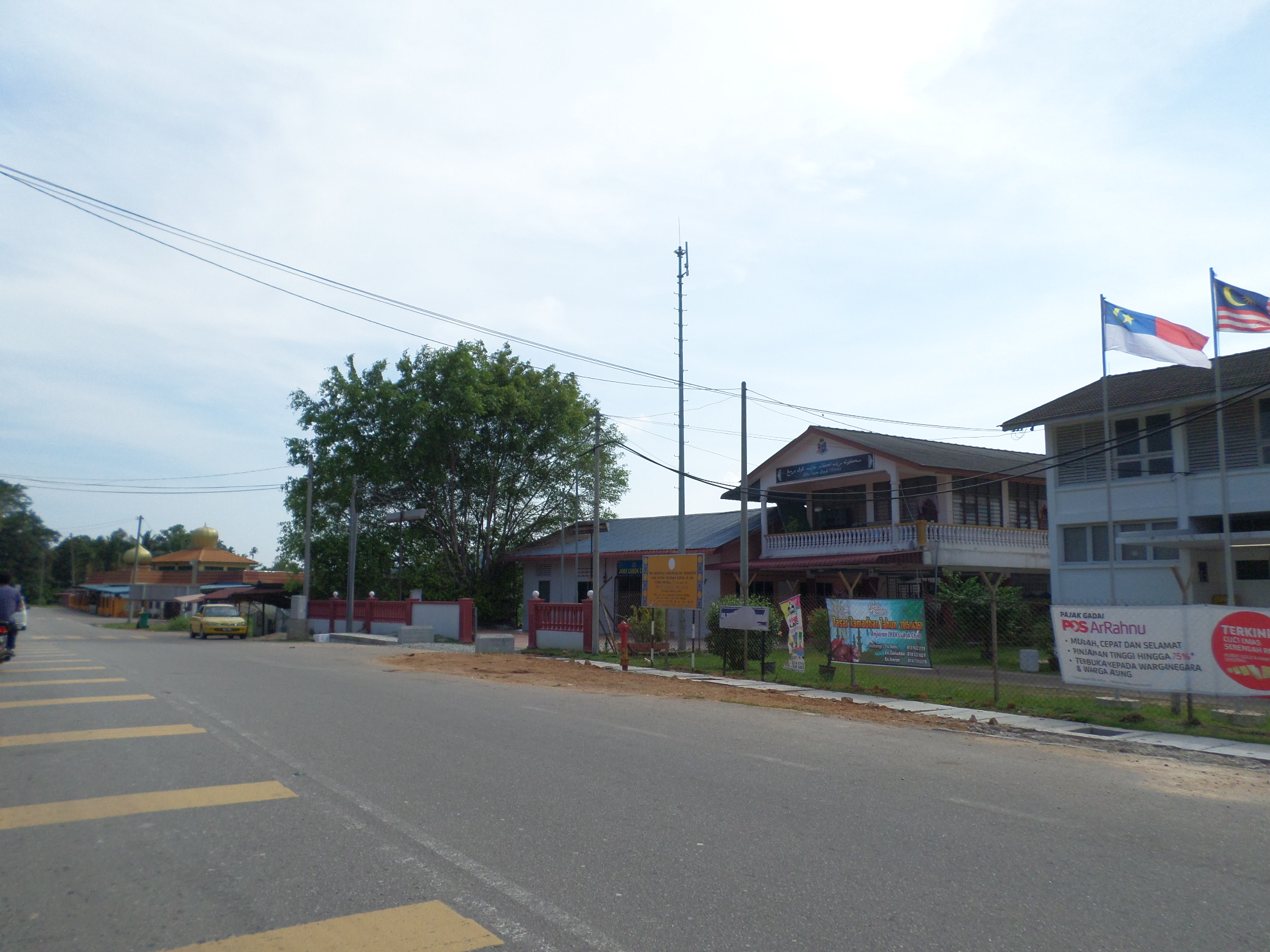 Lubuk China, Alor Gajah, Melaka, MalaysiaBahasa Melayu: Lubuk China, Alor Gajah, Melaka, Malaysia